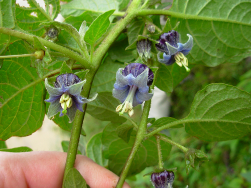 Flowers of Jaltomata yacheri. Collection Mione, Leiva & Yacher 737